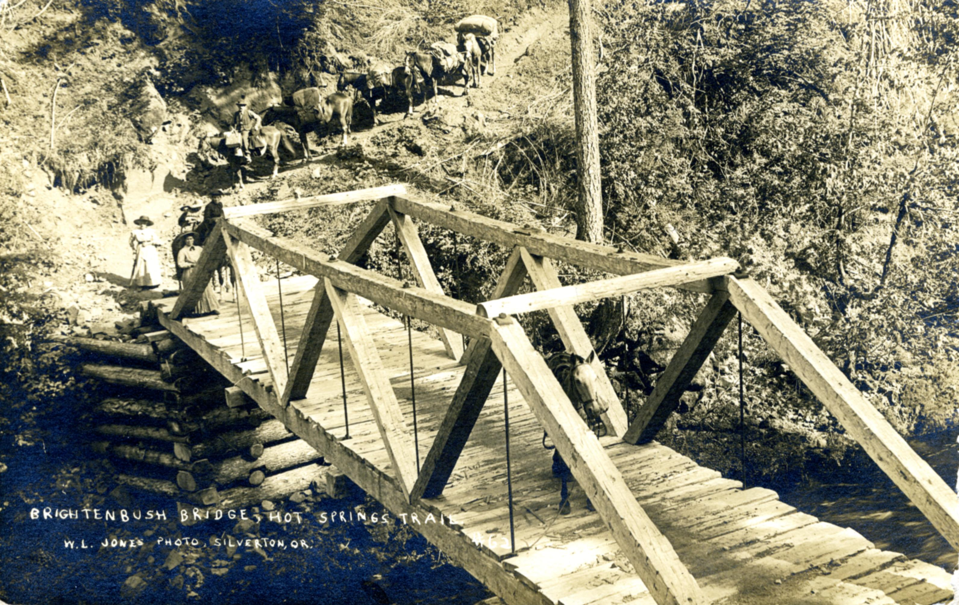 Original Collection: Gerald W. Williams Collection, 1855-2007 Item Number: WilliamsG: SVbreitenbushbridge2 You can find this image by searching for the item number by clicking here. Want more? You can find more digital resources online. We're happy for you to share this digital image within the spirit of The Commons; however, certain restrictions on high quality reproductions of the original physical version may apply. To read more about what “no known restrictions” means, please visit the Special Collections & Archives website, or contact staff at the OSU Special Collections & Archives Research Center for details.